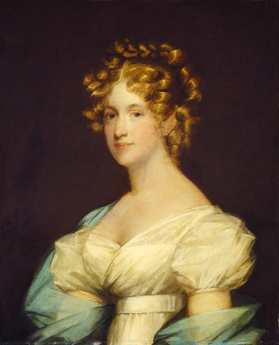 Charlotte Morton Dexter, daughter of Perez Morton and wife of Andrew Dexter, Jr.